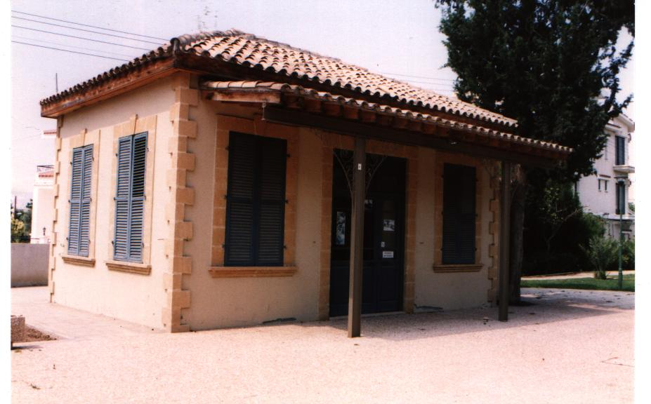 Picture of the Kaimakli Railway Station built in 1909 for the Cyprus Government Railway Restored 1995